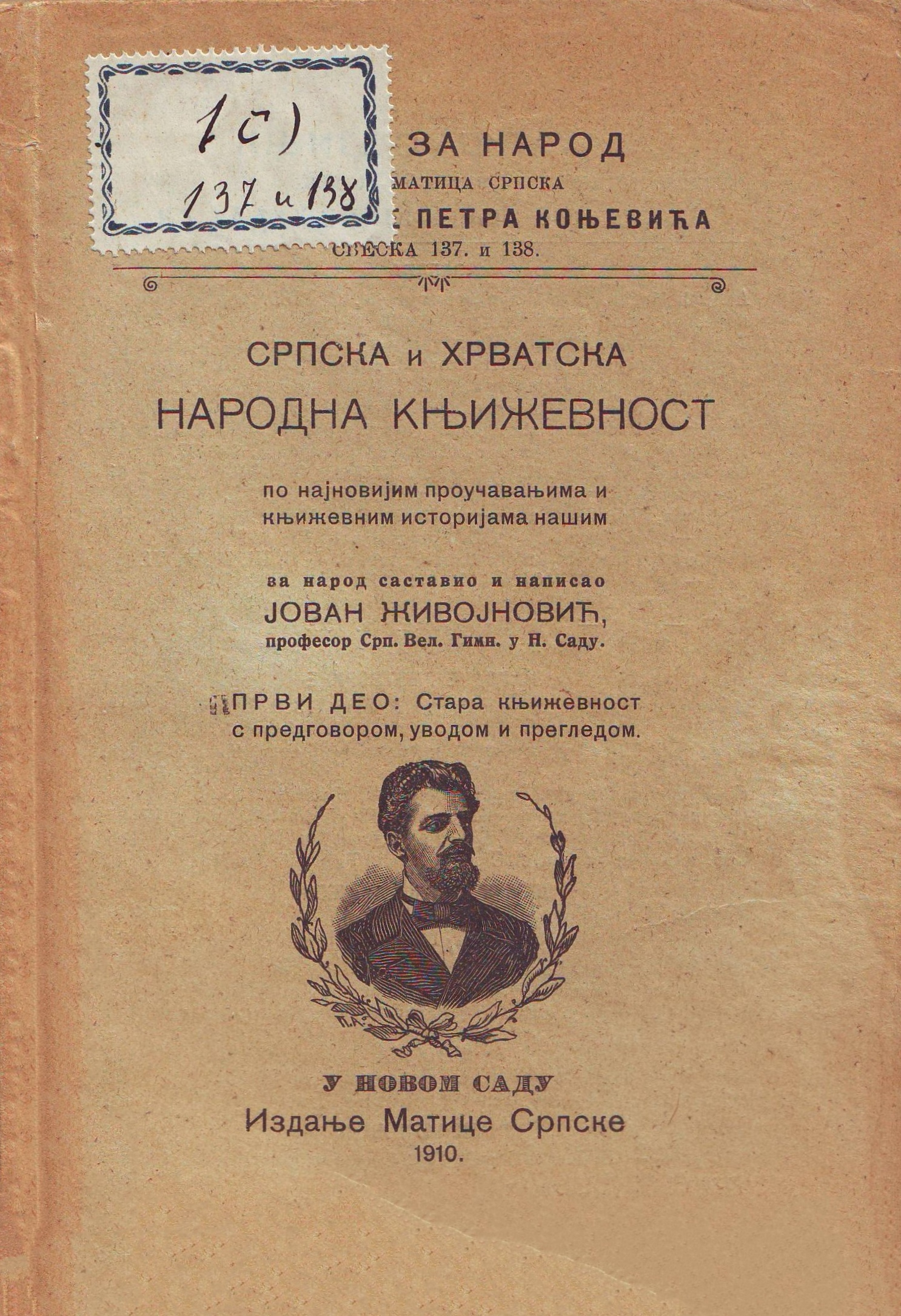 Cover of the book Srpska i hrvatska narodna književnost (1910) by Jovan Živojnović. Srpski (latinica): Naslovna strana knjige Srpska i hrvatska narodna književnost (1910) Jovana Živojnovića.